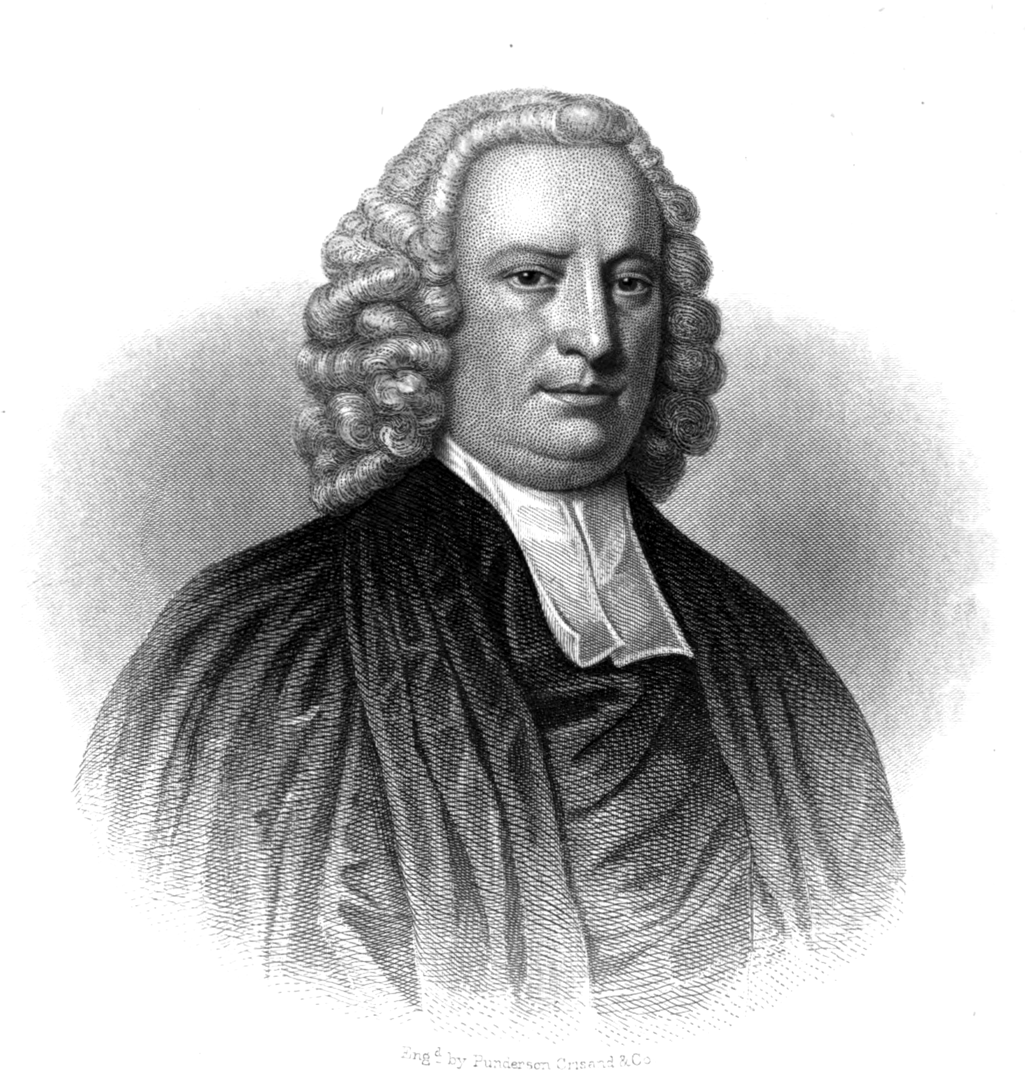 Engraving by Punderson & Crisand of New Haven 1874 of a c. 1730 painting by John Smibert of the American President Rev. Dr. Samuel Johnson (1694-1772) taken from E.E. Beardsley's Life and Correspondence of Samuel Johnson, D.D. (1874)